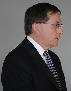 Alberta Premier Ed Stelmach speaking at a luncheon of young Edmontonians deemed to be community leaders.